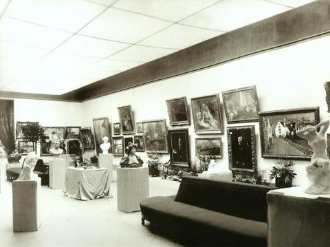 French art exhibition, which took place at Pinacoteca do Estado in 1913 - Cia da Memória Collection.